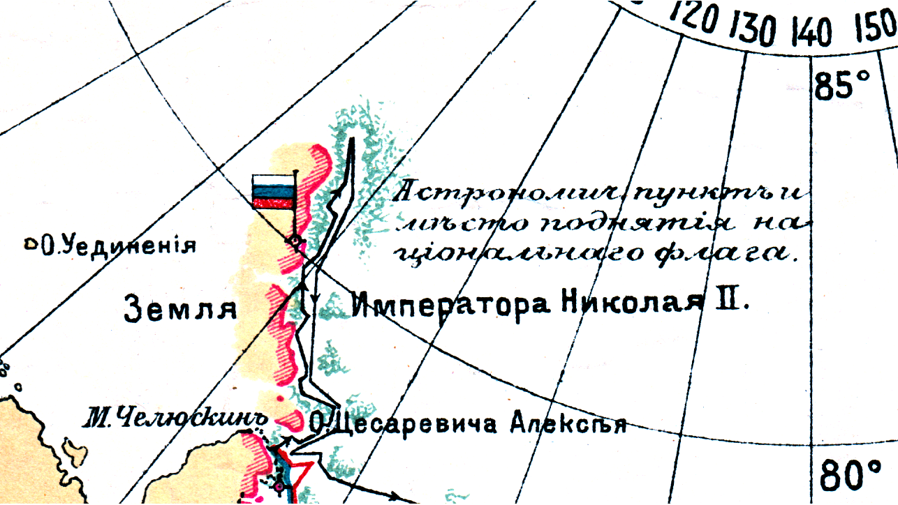 Emperor Nicholas II Land as mapped by the expedition team of Boris Vilkitsky in 1913. Back then it was believed that Severnaya Zemlya was one island.